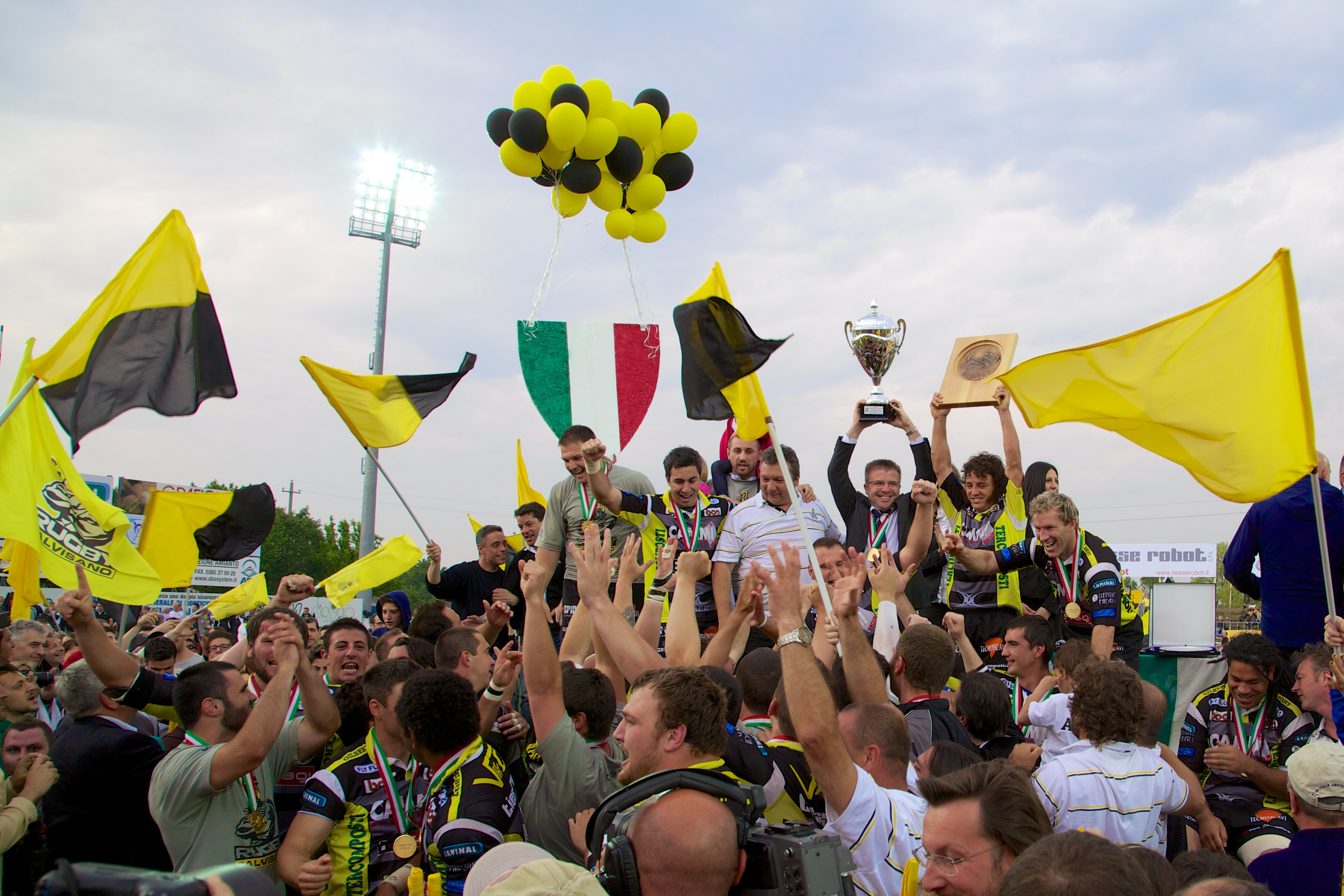 Players and supporters of Rugby Calvisano celebrate the conquest of the Italian Championship Eccellenza 2011-12